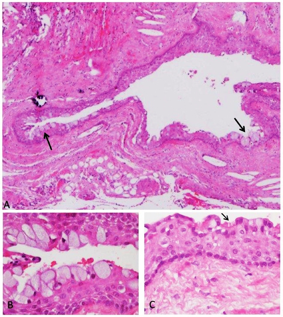 A) Fragment of a radicular cyst wall that shows metaplastic changes of mucous secreting cells (arrows; hematoxylin and eosin, x100 original magnification). B) Magnification of the mucous cells. C) Ciliated cells (arrow). The underlying fibrous capsule contains cholesterol clefts and inflammation.